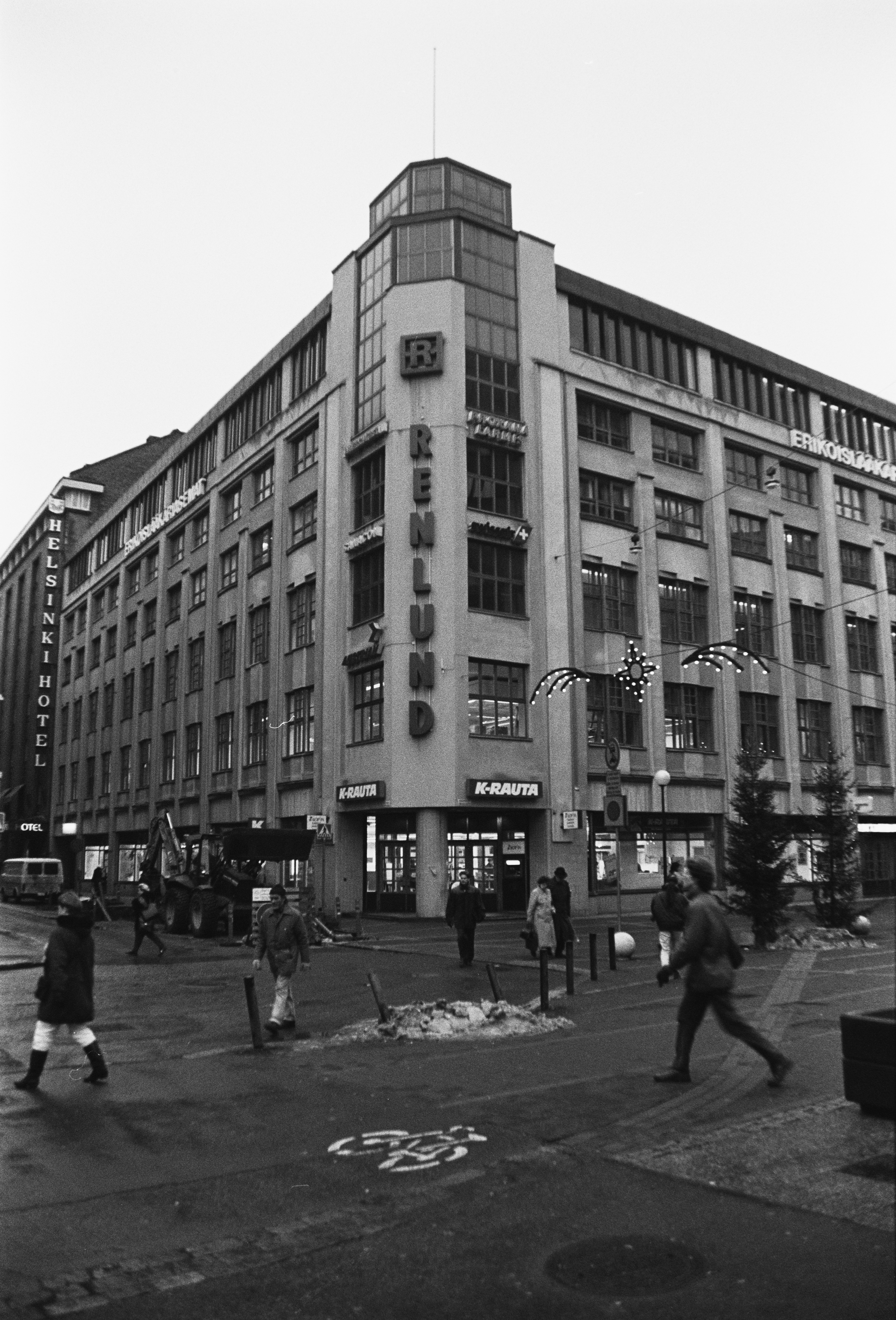 Renlund hardware store, Helsinki, Finland.